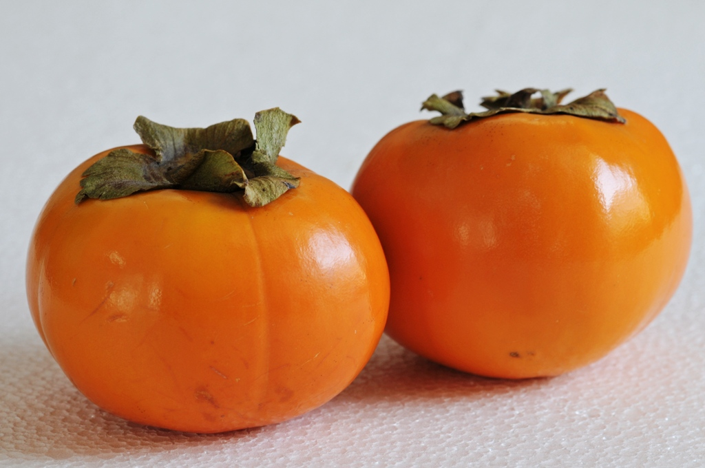 Persimmon is a delicious fruit of the genus Diospyros. In Greek, Diospyros means fruit of the Gods. Native to China, this fruit has been cultivated widely in Japan and other parts of Asia. The plant was introduced to California in early nineteenth Century. I saw this attractive fruit, resembling a tomato while on a visit to San Francisco, several years back. It was a pleasant surprise to see these growing in Gushaini on the Thirthan Valley. Raju of the Raju’s Cottage fame informed me that the Horticulture Department of Himachal Pradesh has not only popularized its cultivation, but has also imported a new variety which can be eaten raw. Usually, the fruit contains huge quantities of tannin and is astringent and unpleasant to the palate when raw. This variety, the Japanese cultivar, fuyu can be eaten when not very ripe. No wonder the locals call this “Japanese Fruit”. Raju has been kind to send us a basket of persimmon this season also as he has done several times in the past. Susan and I both love this fruit. Pity it is not very popular with people in Delhi.